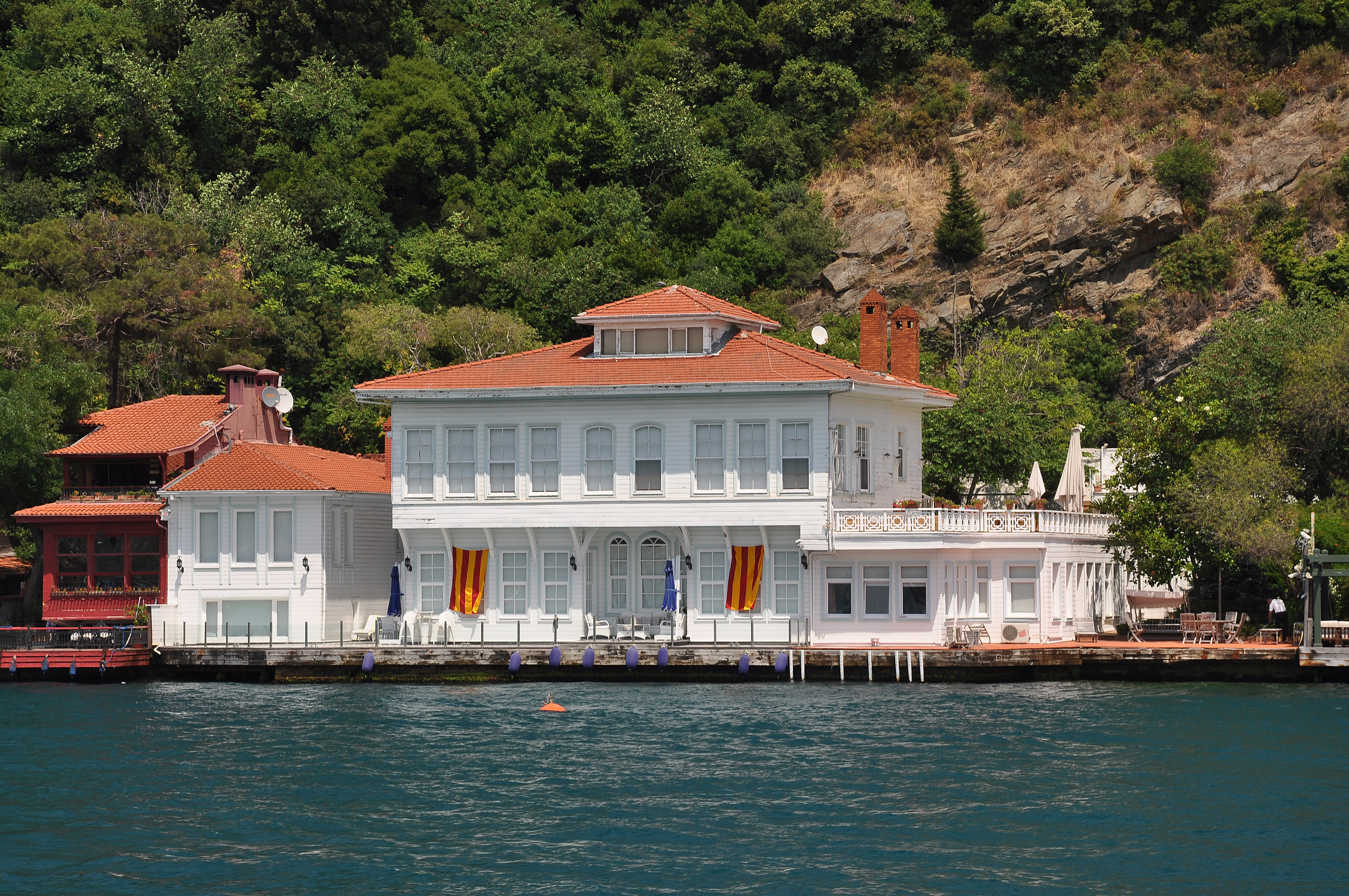 Sadrazam Kadri Pasha Yalısı in Kanlıca on the Bosphorus shore, Turkey. This is a Yalı mansion purchased by Kadri Pasa when he married the daughter of the famous palace physician of Sultan Abdülmecit, Ismail Pasa. Kadri Pasa had been a Grand Vizier and later he became the Governor of Edirne. He died in 1883. The heirs of the Pasa restored the present building after a ship had crashed into the mansion, causing serious damage. The period of architecture of this Kanlica mansion dates mainly to the 1850's.